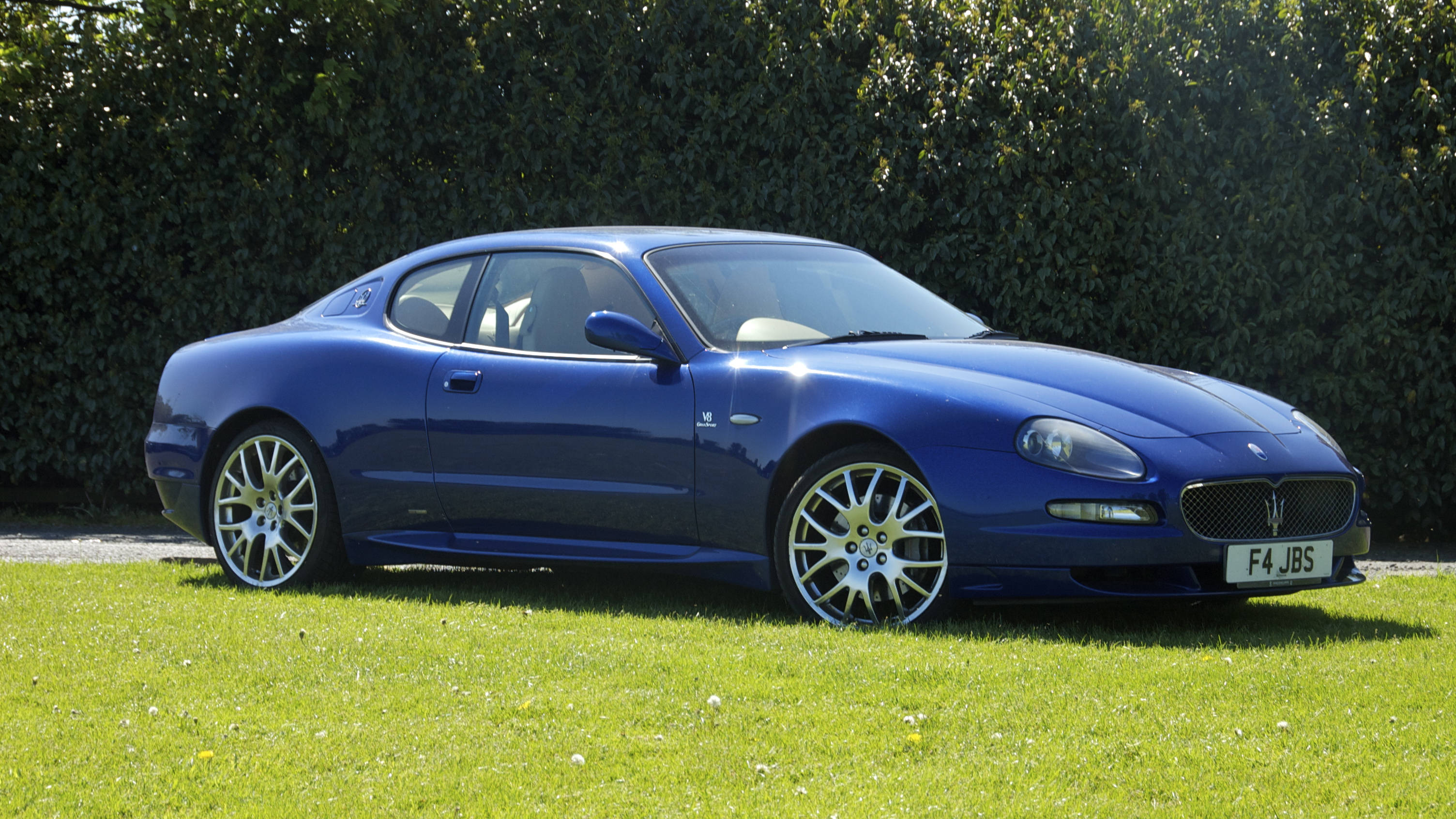 Posting photos of your motor is a bit wanky. Oh well...